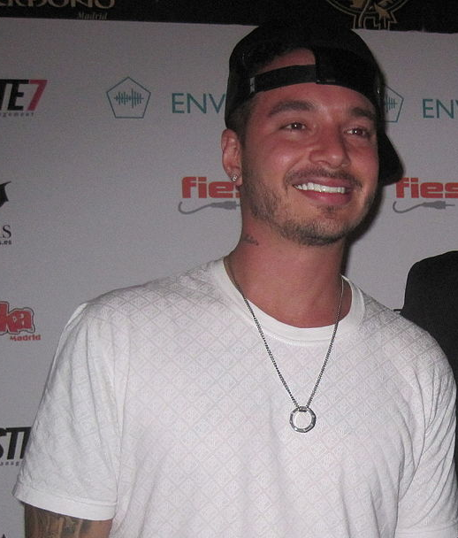 J Balvin in 2014